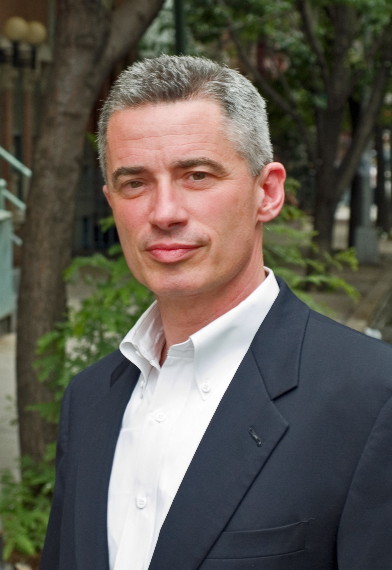 Former New Jersey Governor Jim McGreevey volunteering for Exodus Transitional Community at the Church of Living Hope in Harlem, New York City. Photographer's blog post about Jim McGreevey and his new life.